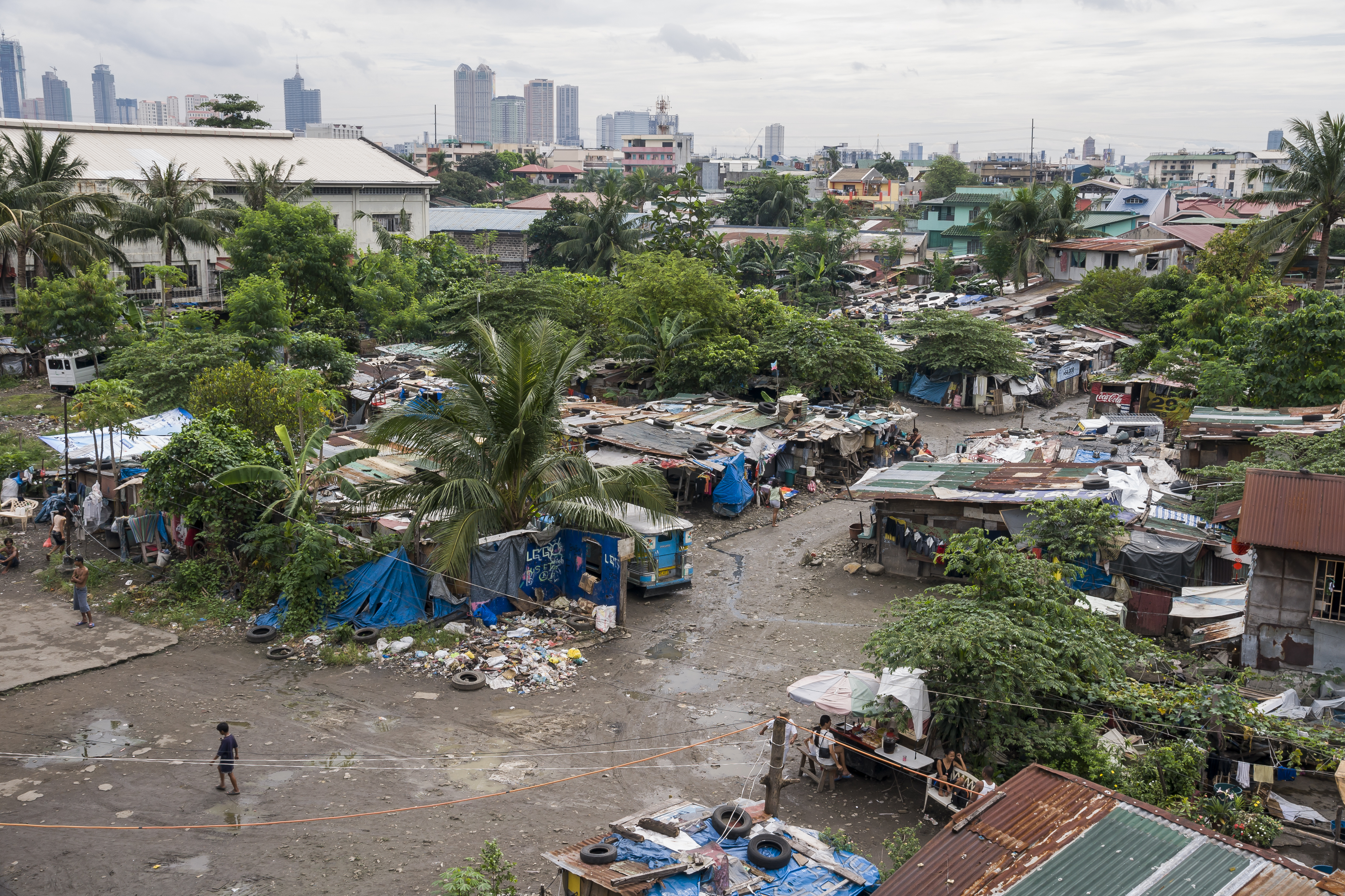 Manila, Philippines: A slum in Manila